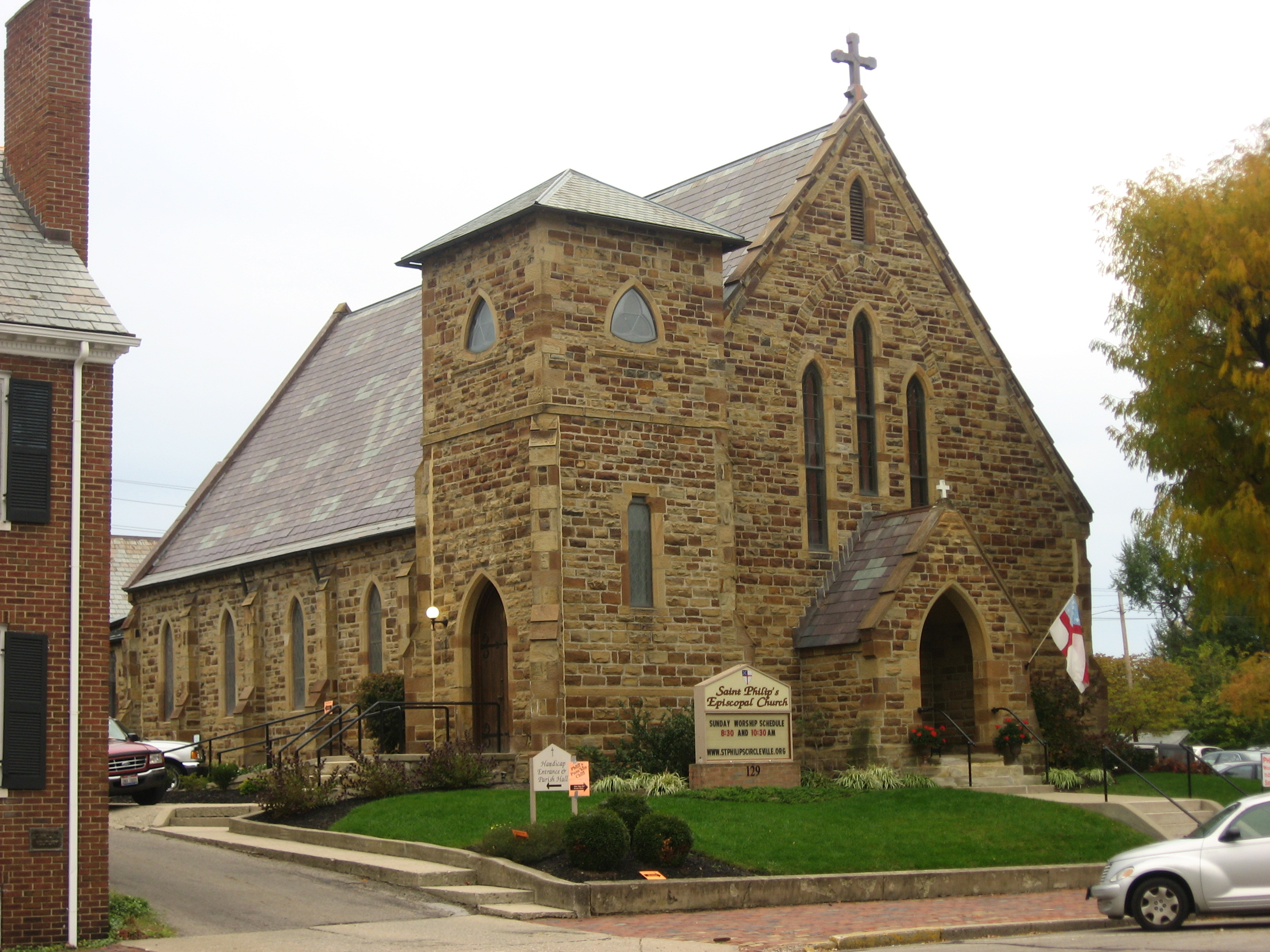 Front of Saint Philip's Episcopal Church, located at 129 W. Mound Street in Circleville, Ohio, United States. Built in 1866, the church is listed on the National Register of Historic Places.